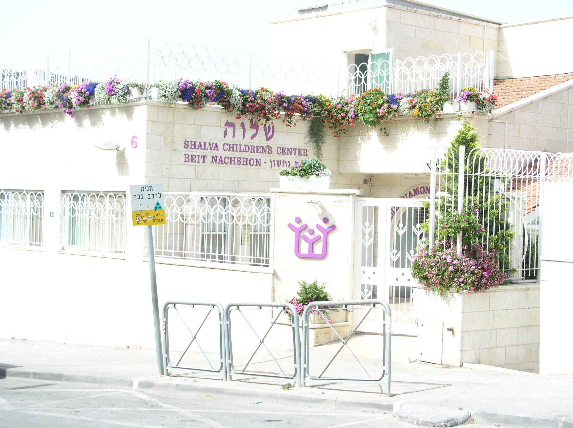 SHALVA Center in Jerusalem, Har Nof neighborhood, 6 Even Danan street